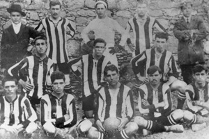 This picture is the first football team of the Real Club Victoria, founded in Las Palmas de Gran Canaria by Pepe Gonçalves (center of the picture, with the ball in this hands). He also was the first president of the club. The color of the team (black and white) are inspired from Newcastle United Football Club, because Pepe went to study there for five years. The name "Victoria" came from Queen Victoria of England.